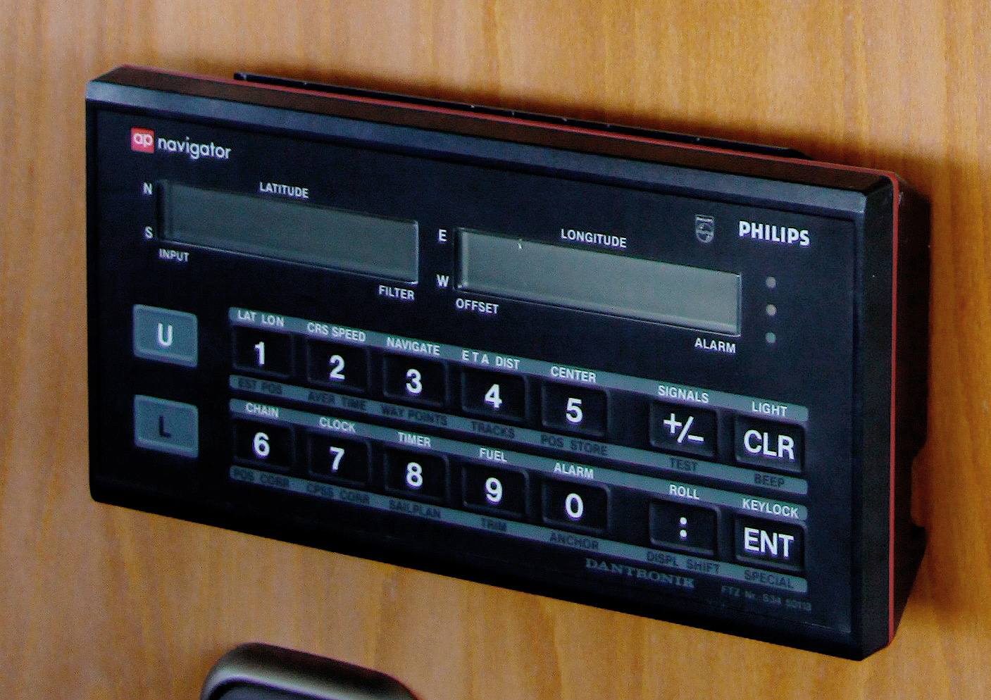 An ap Decca receiver Mk II manufactured by Danish Philips from the 1980s. It was able to compute coordinates directly and without the use of Decca maps. It could also store 25 waypoints.